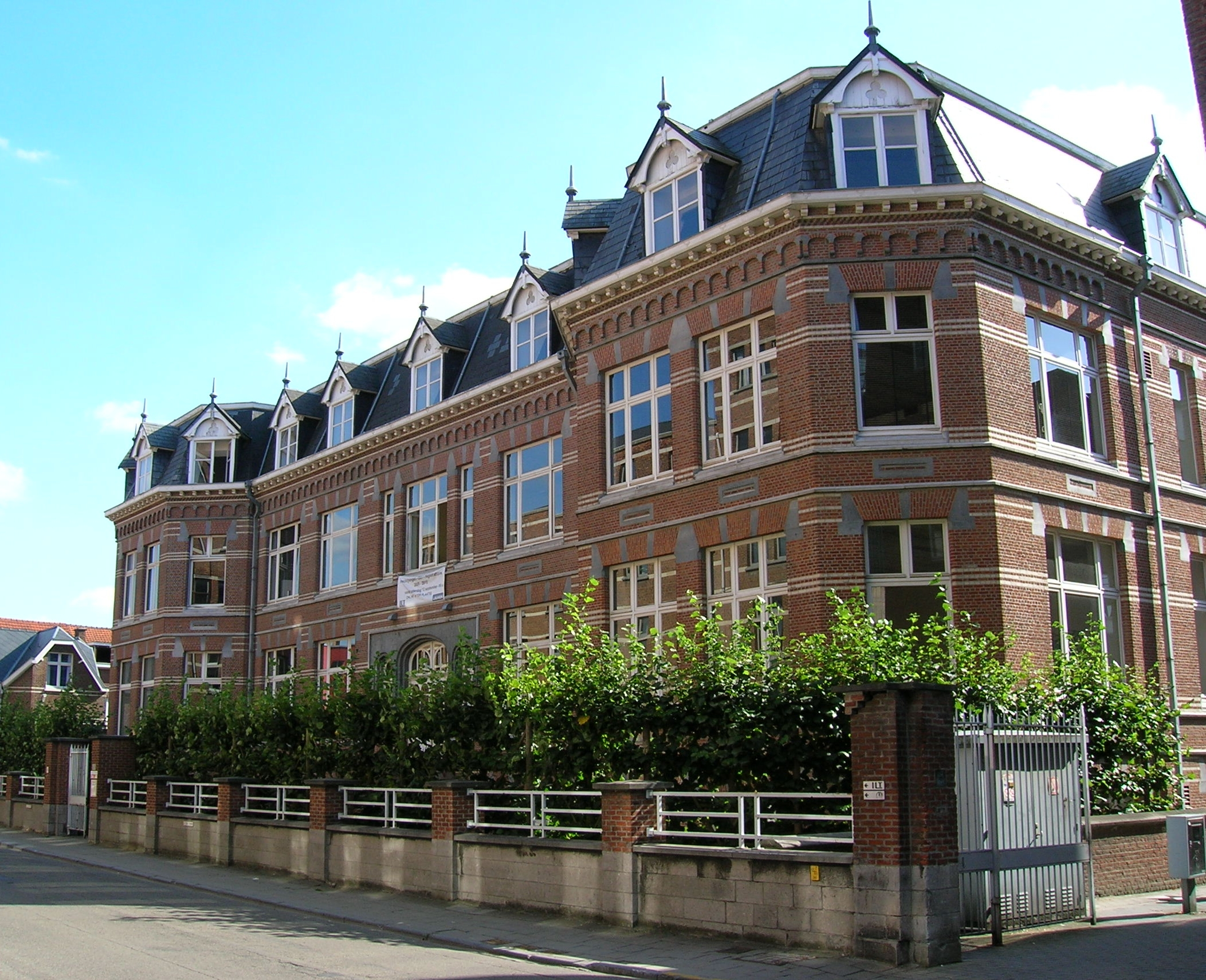 Building of the Centre for Living Languages (Centrum voor Levende Talen, CLT) in Leuven, Belgium. Front, view from right.